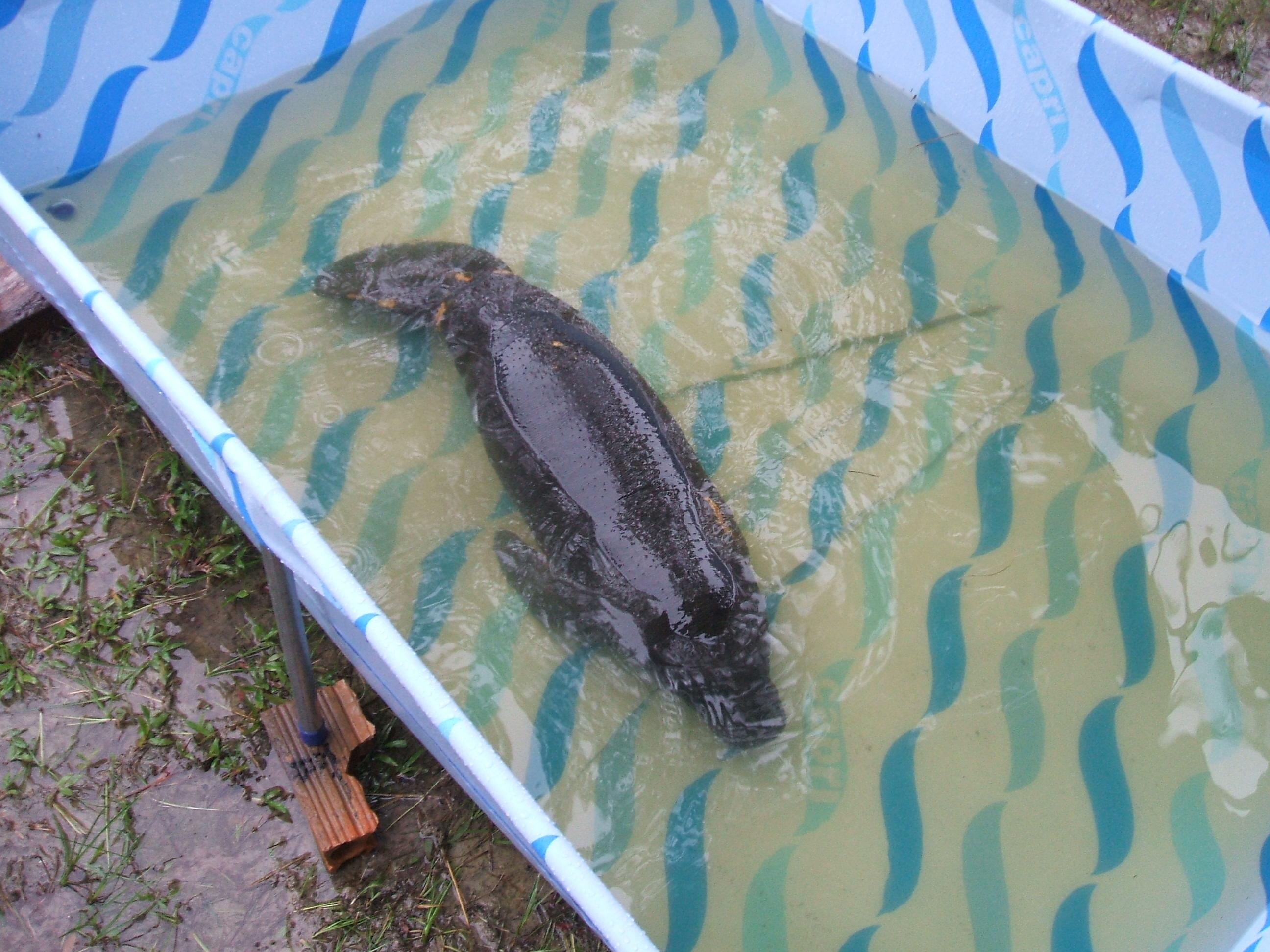 Picture of a baby Trichechus inunguis in Instituto Brasileiro de Meio Ambiente e Recursos Naturais Renováveis (IBAMA) in Breves - Pará State - Marajó Island - Brazil